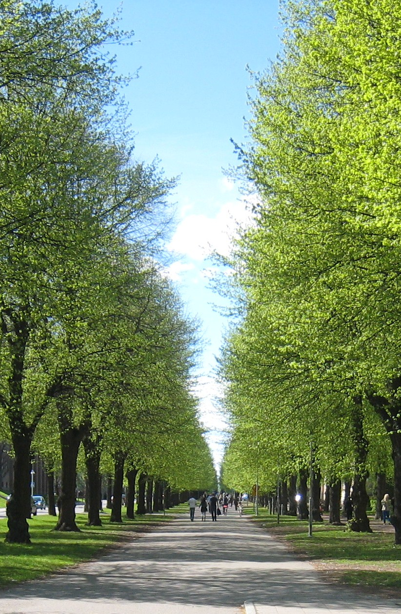 People strolling in the avenue "Södra Promenaden" in Norrköping